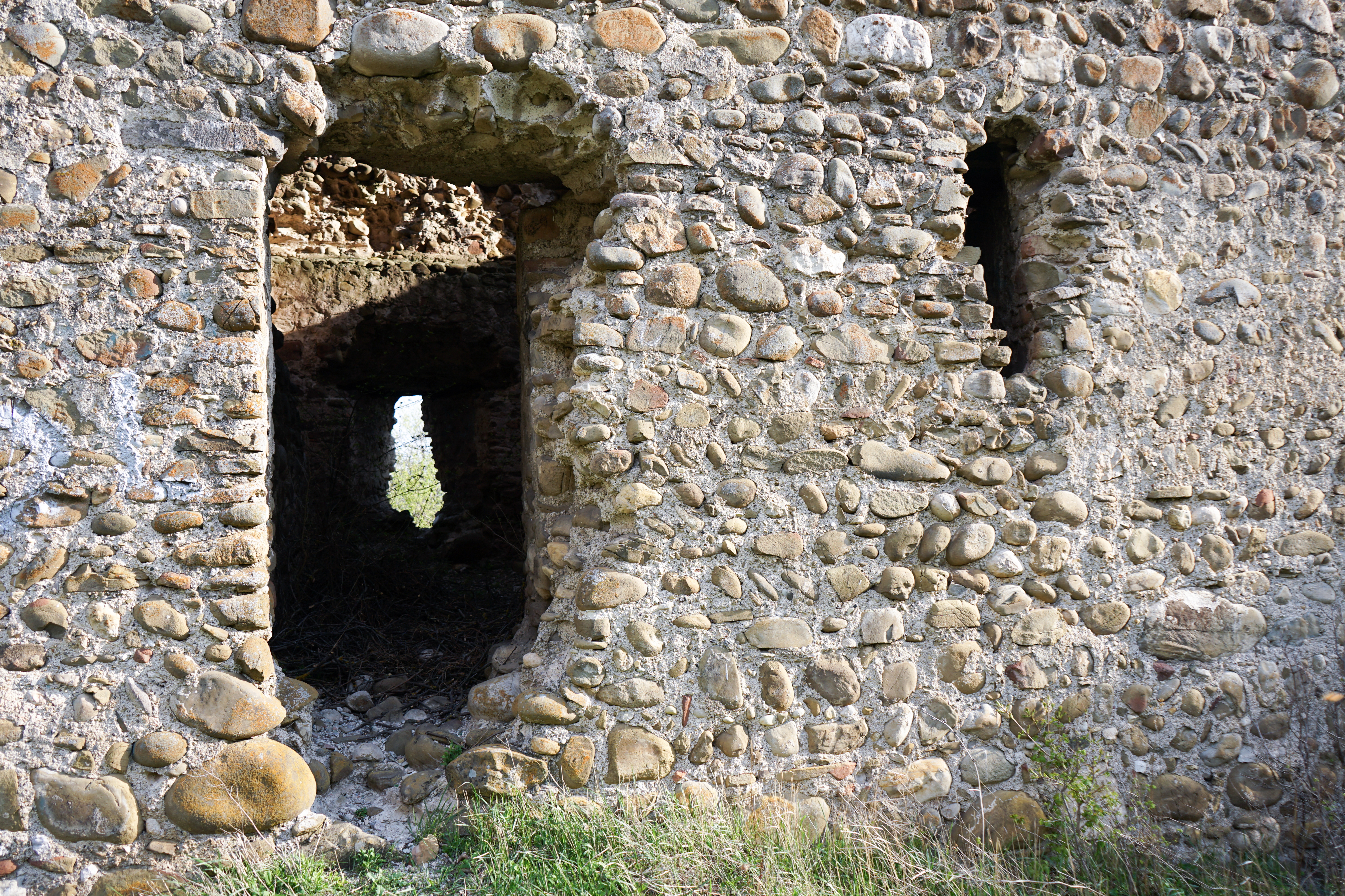 Entrance of the tower in Zemo Kodistskaro Palace, Dusheti Municipality, Georgia